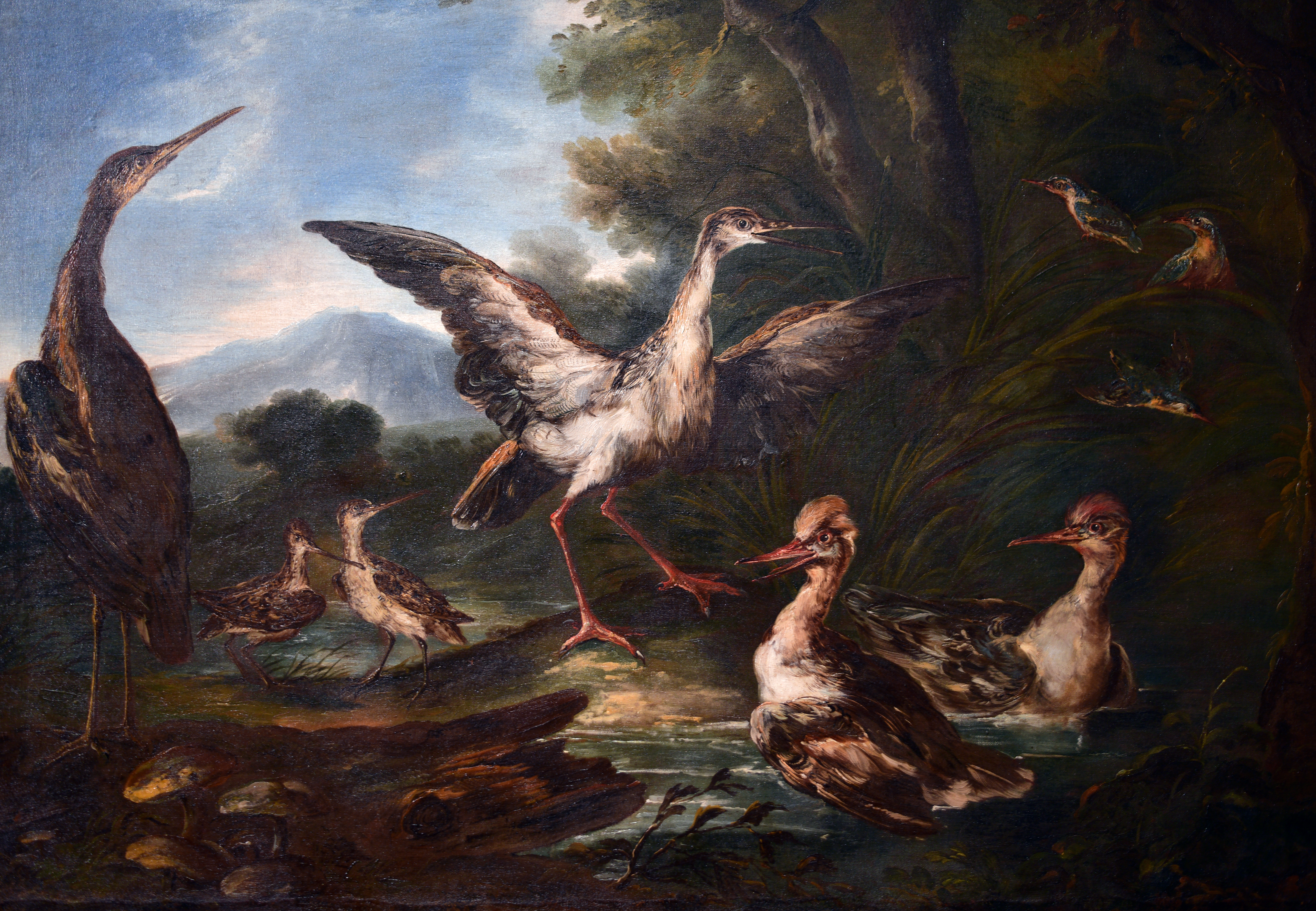 Paint of birds - Angelo Maria Crivelli